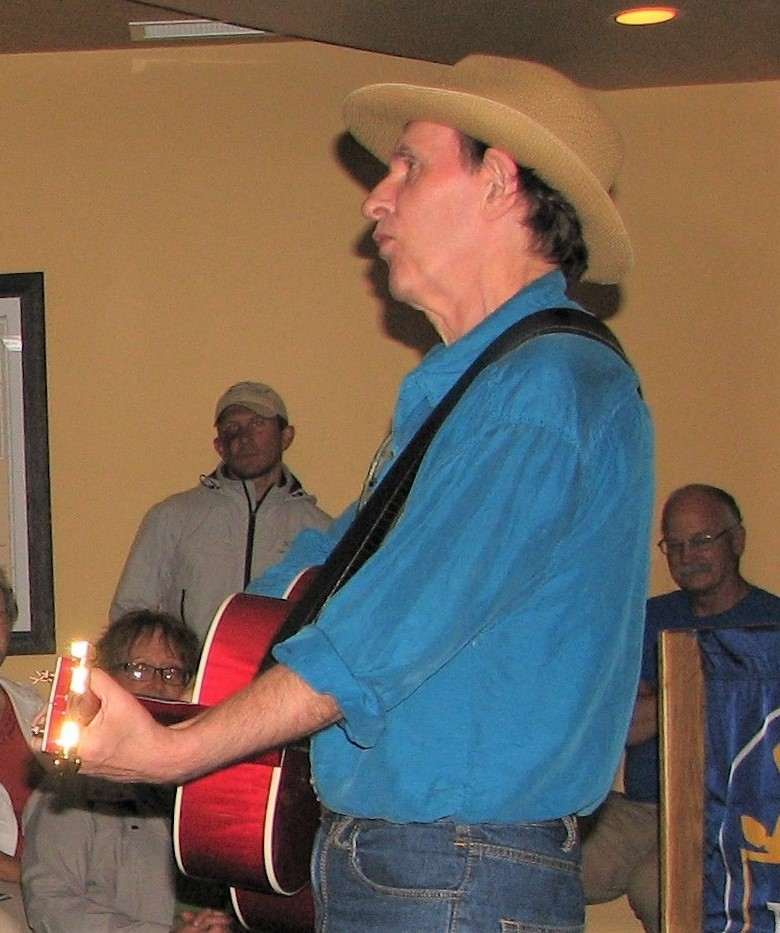 NL folk musician Ron Hynes in Gros Morne.